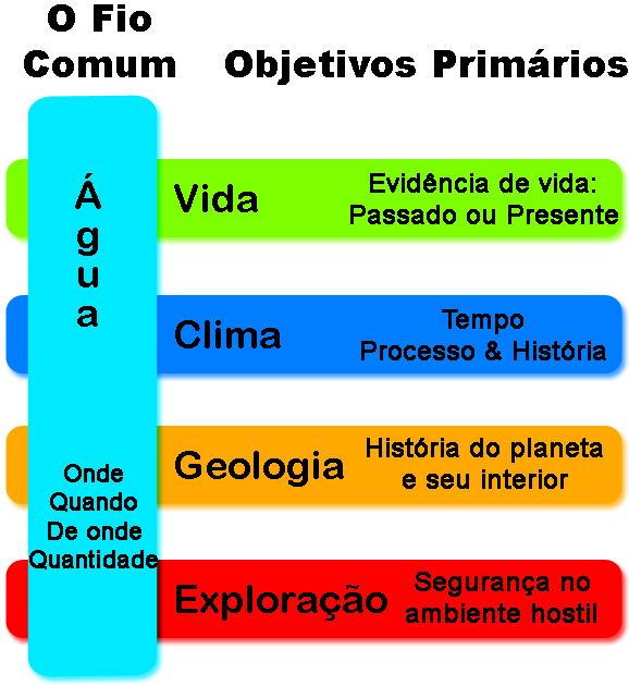 Scheme showing the Phoenix Mission science goals, inspired in this image (also seen here), but adapted with the info found here.